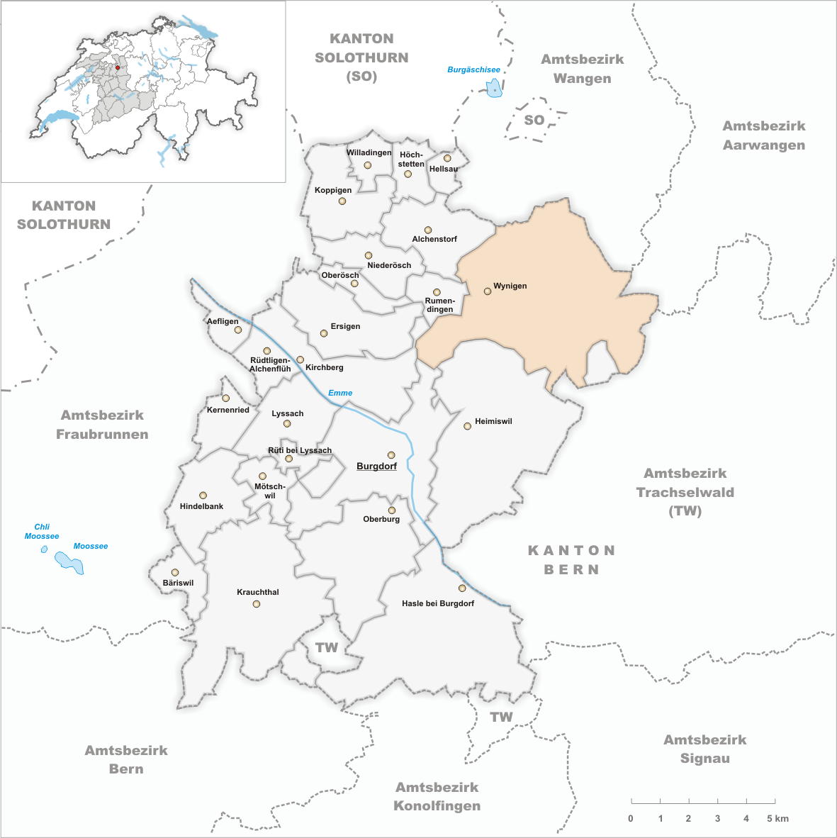 Municipality Wynigen